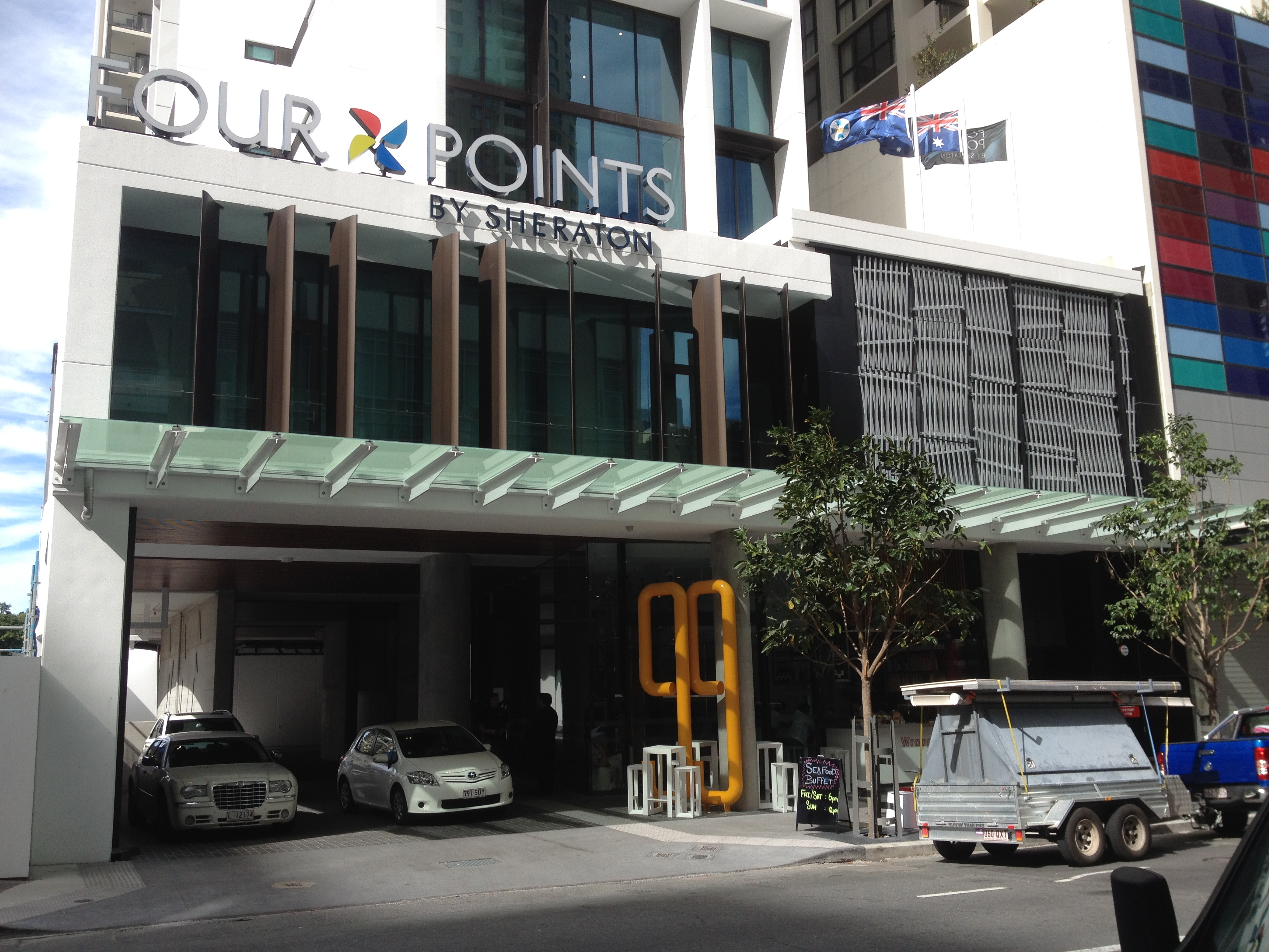 Four Points by Sheraton Brisbane entrance